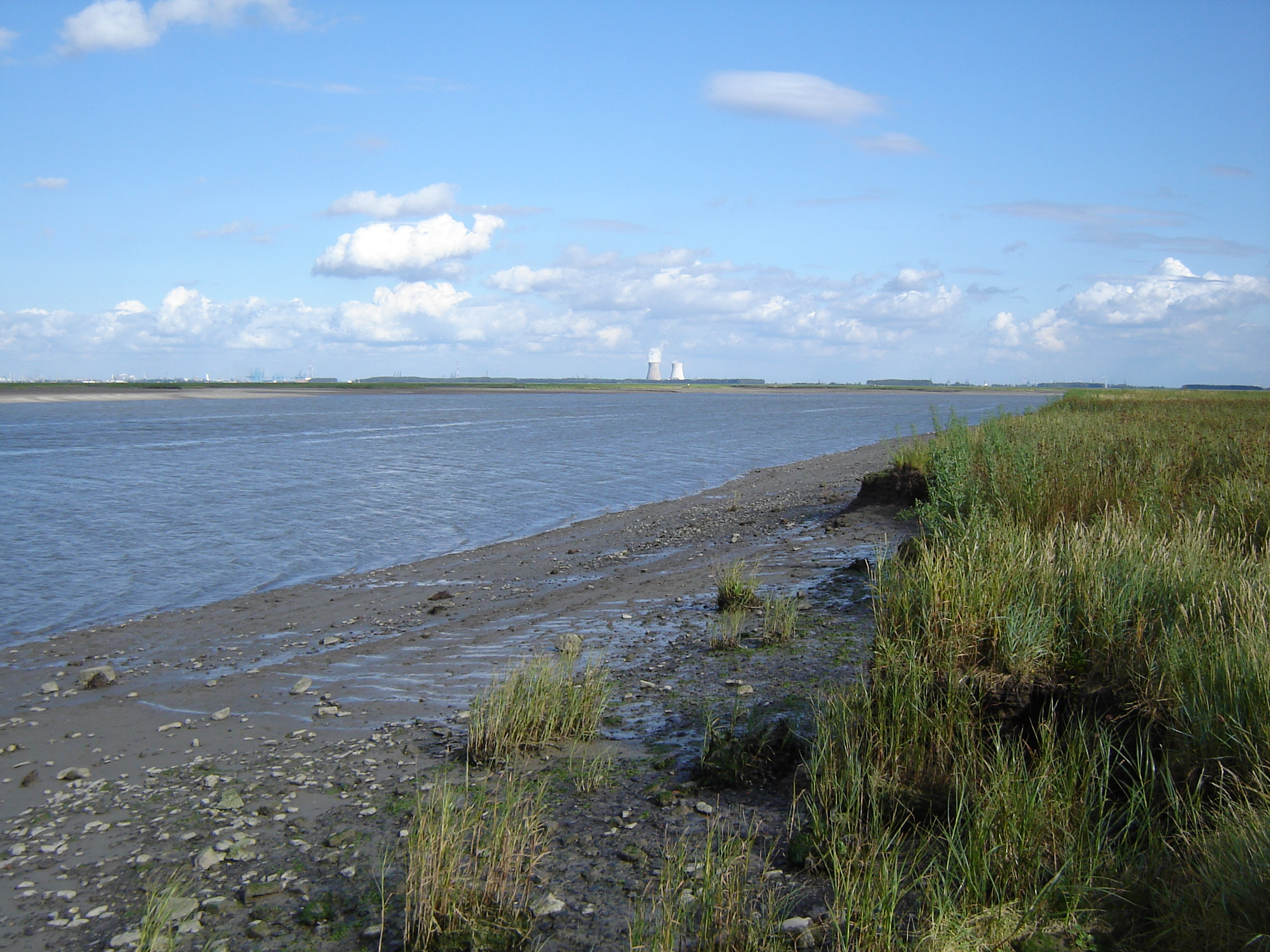 Speelmansgat channel in the "Verdronken Land van Saefthinge" (sunken land of Saeftinghe), seen from the hamlet of Paal. At the horizon, the nuclear plant of Doel (Belgium). Paal, Hulst, Zeeland, Netherlands.